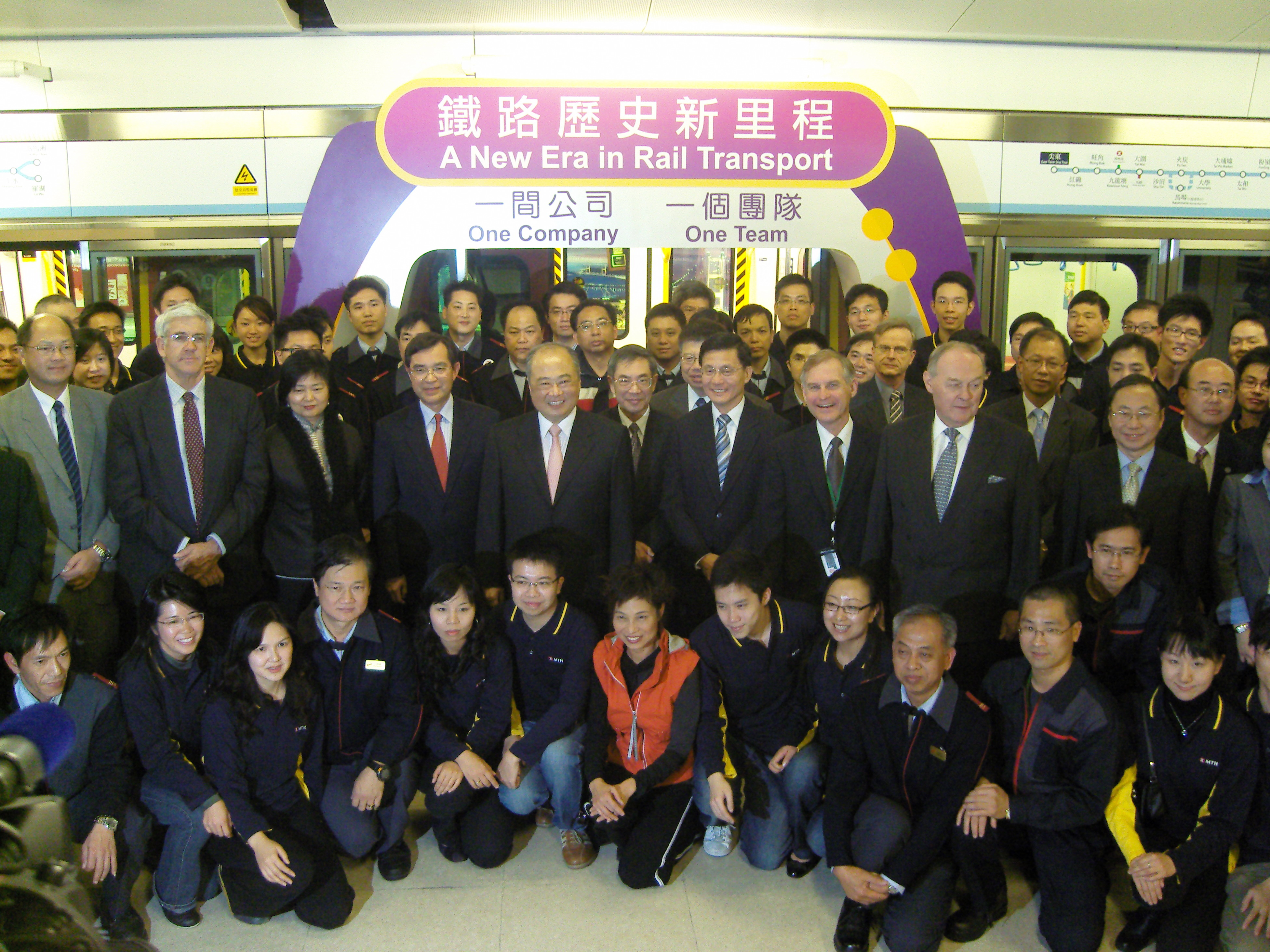 Merger of KCR and MTR operations, Hong Kong.